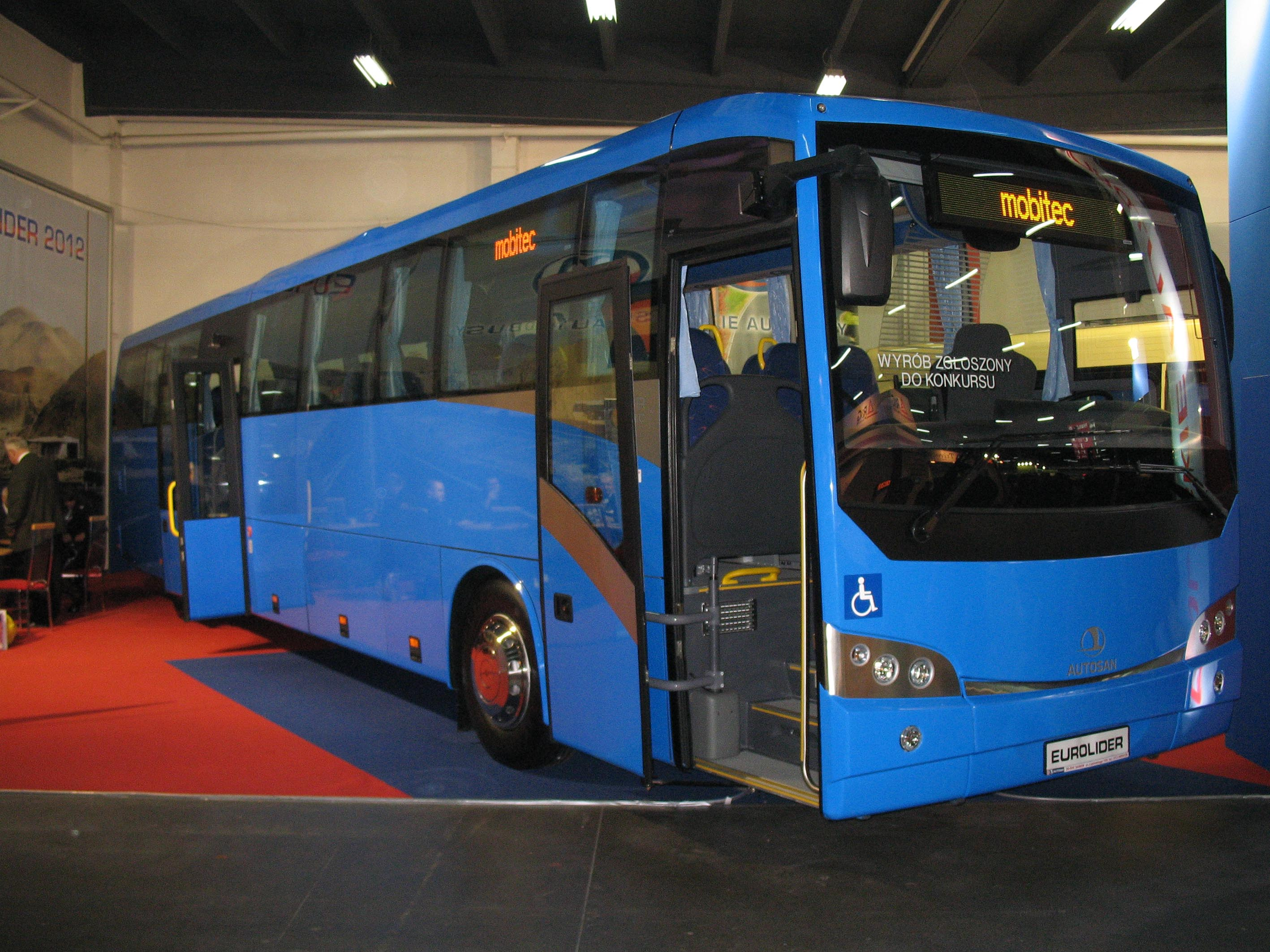 Autosan A1213C Eurolider bus in Kielce, Poland. Built 2008, Transexpo 2008.